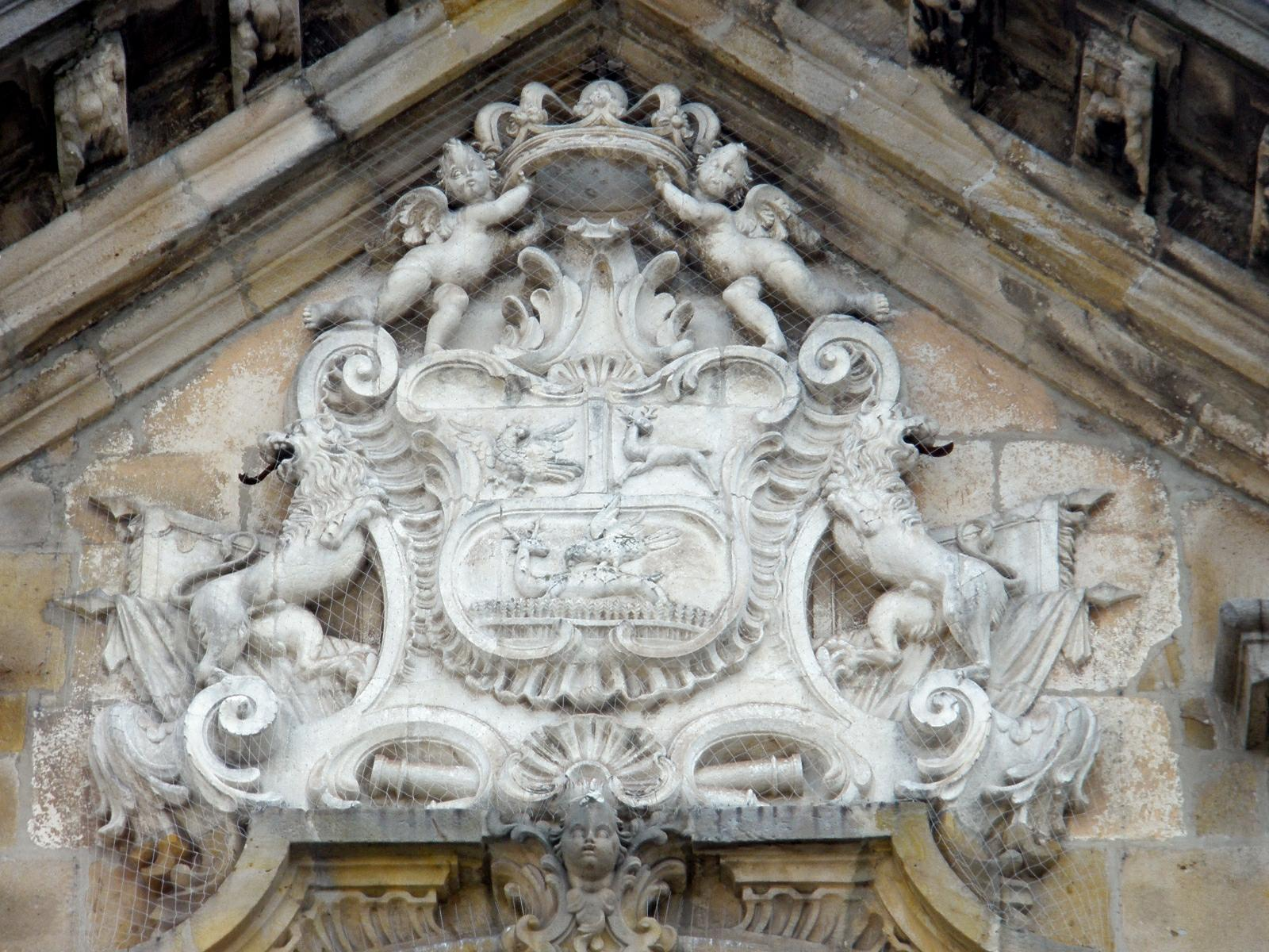 Escudo de armas en el Ayuntamiento de Oñate (Guipúzcoa, País Vasco, España)